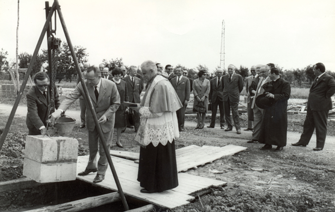 Rainero Lombardini, with his family and local authorities, at the ceremony to lay the first stone of the new factory in Pieve, Reggio Emilia.